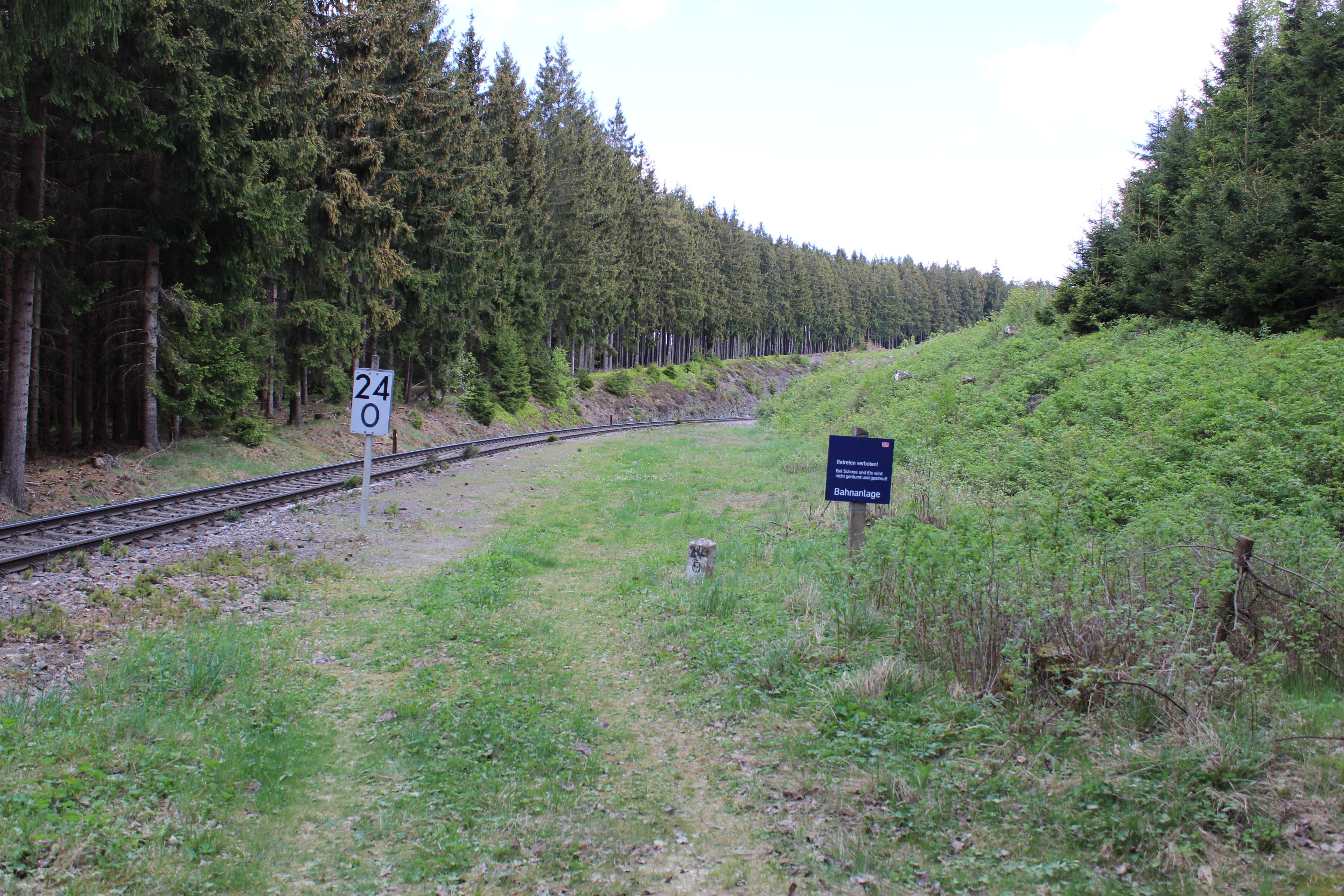 train station Heinersdorf (b Lobenstein)